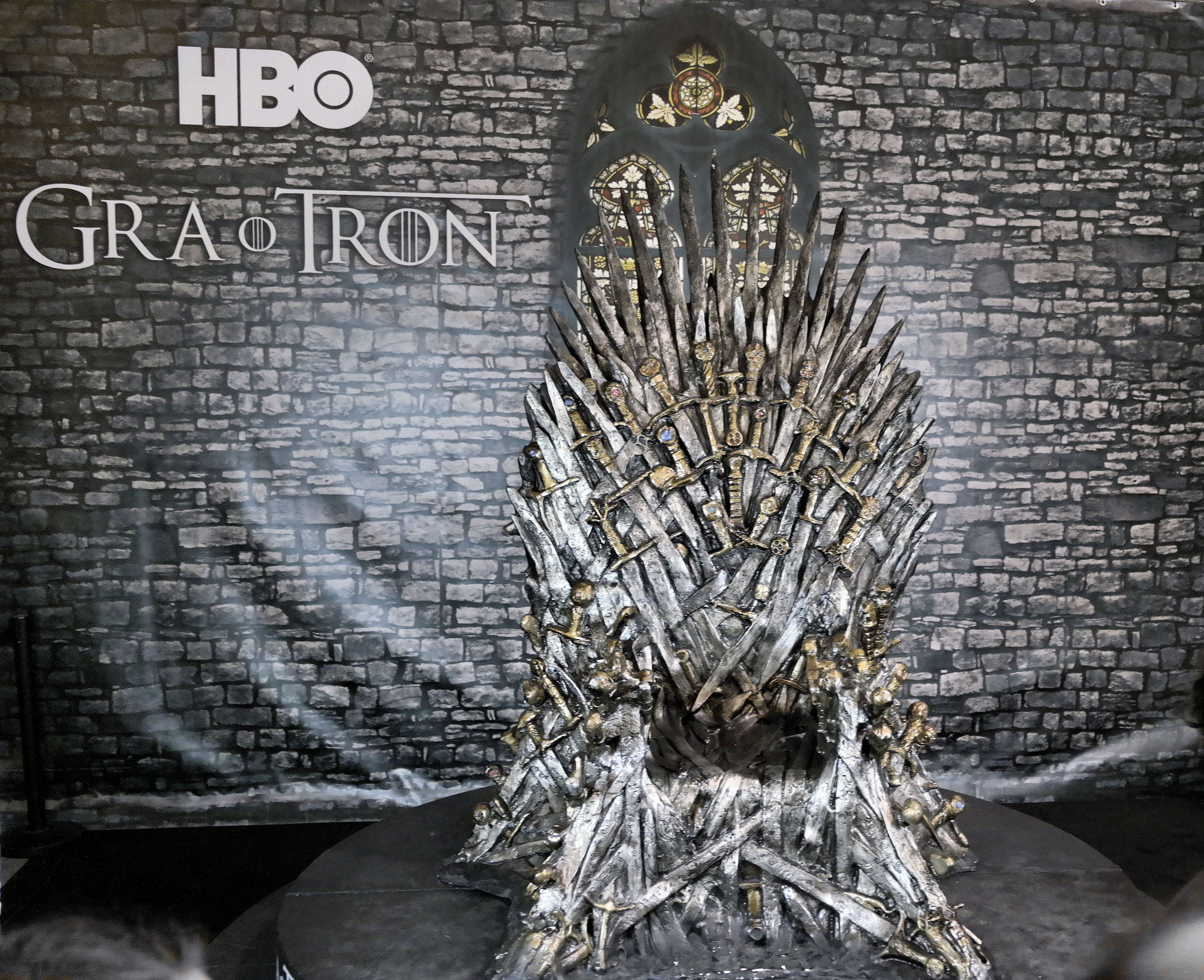 The Iron Throne from TV series Game of Thrones (HBO), Pyrkon, Poznań 2015